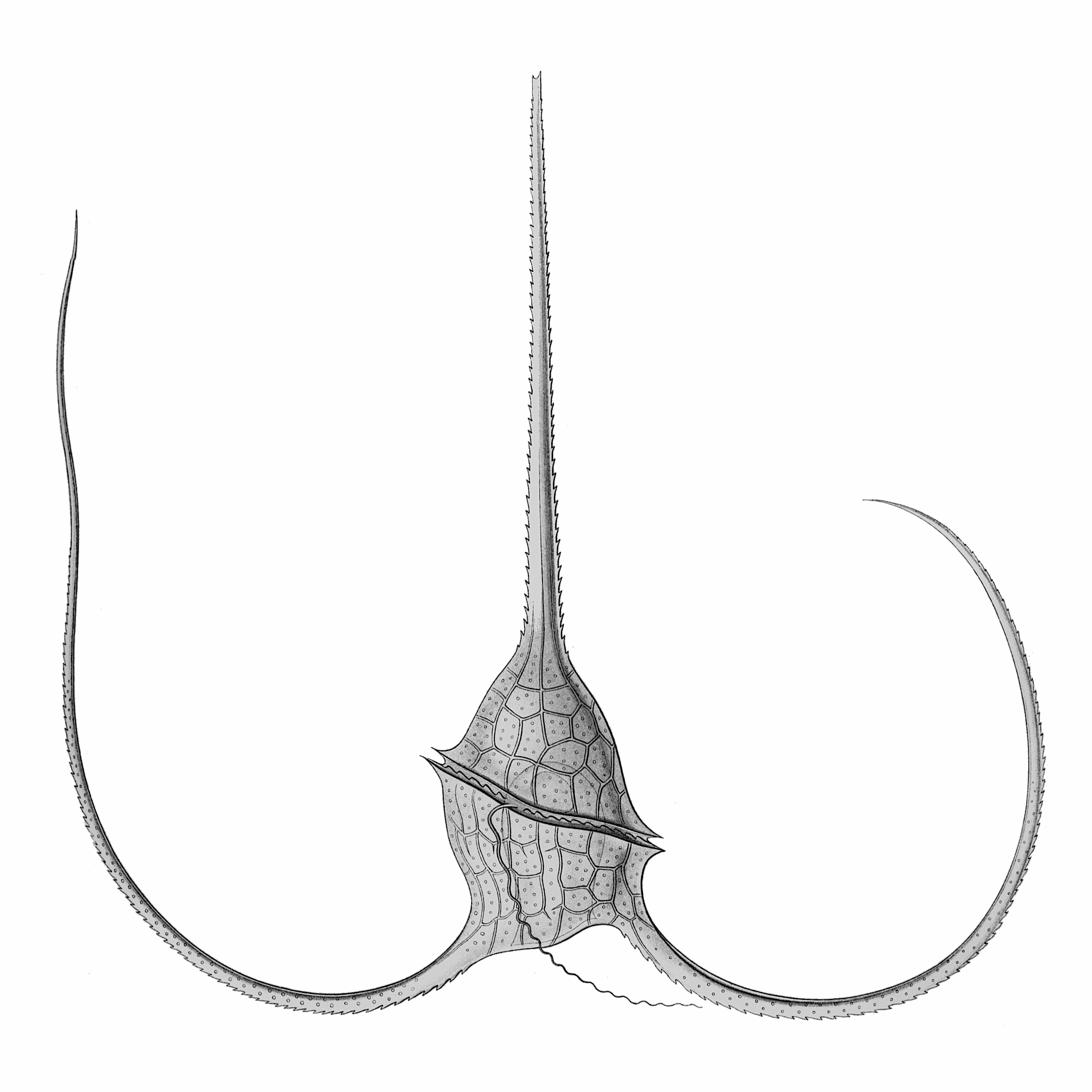 Original name Ceratium tripos (O.F.Müller, 1776). Now accepted as Tripos muelleri (Bory de Saint-Vincent, 1824). This dinoflagellate is recognizable by its U-shaped horns